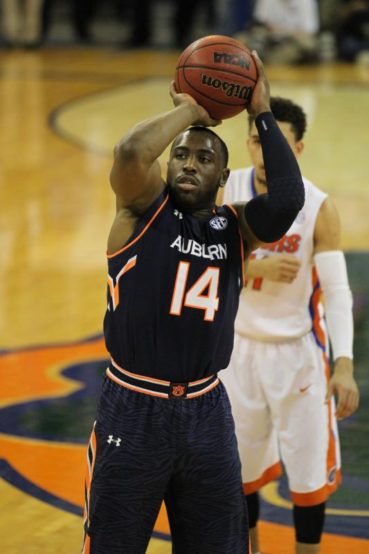 Auburn vs Florida Gators 2015/01/15